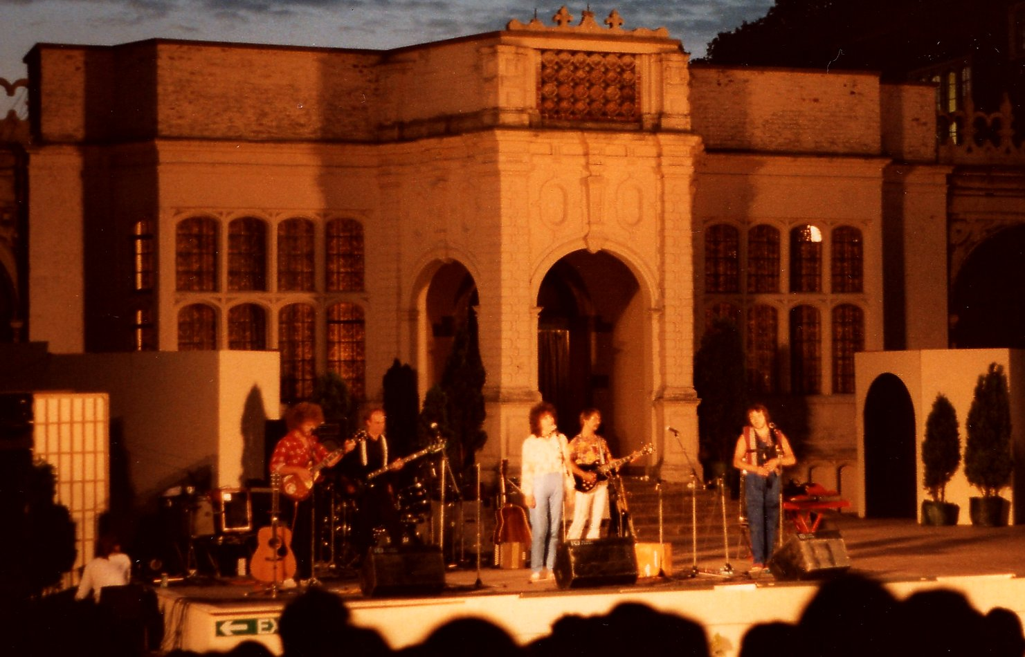 The Albion Band (UK Folk artists) on stage at an outdoor concert at Holland House, London, summer 1983 (Tony Rees photograph)